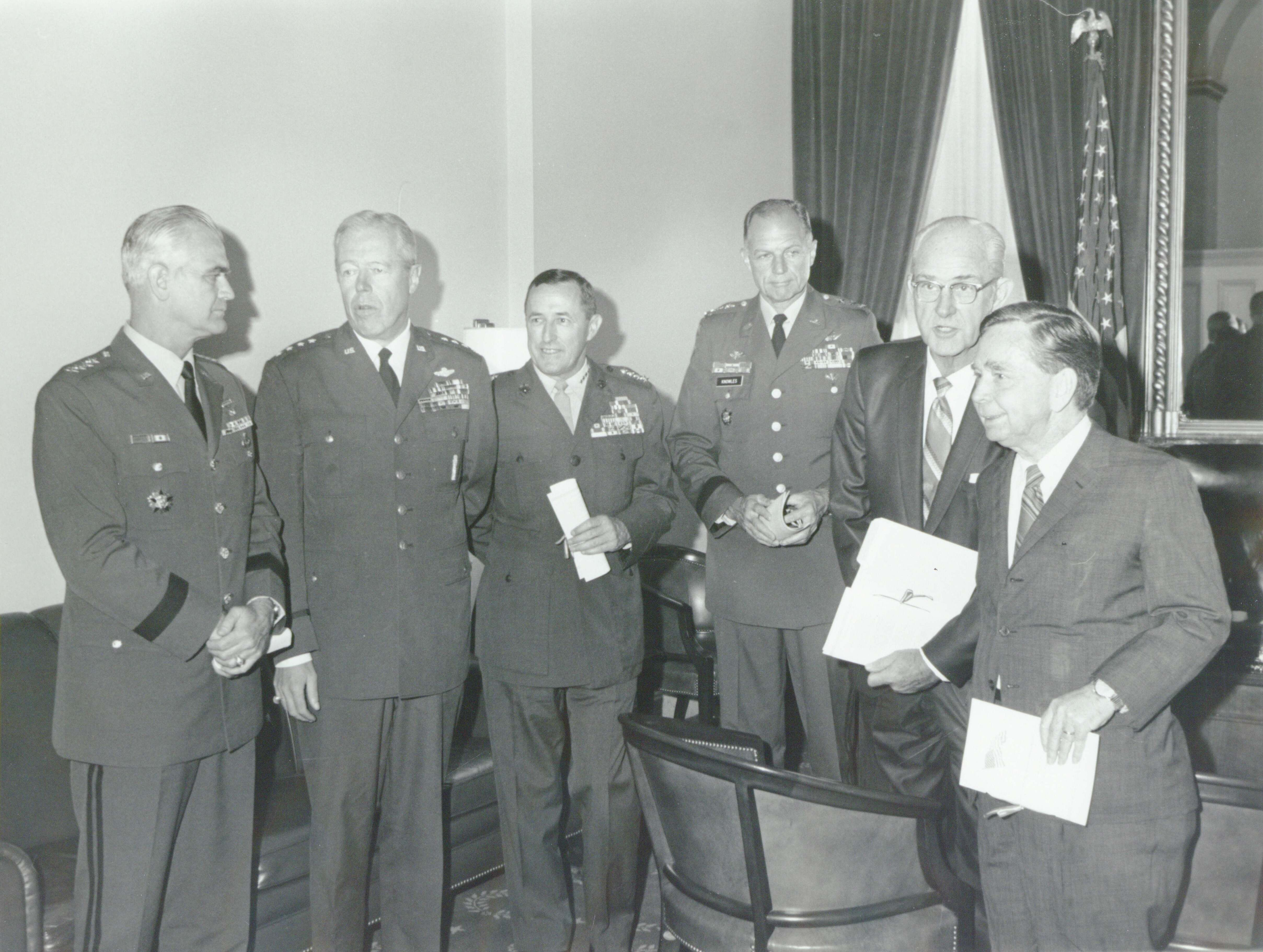 Black and white photograph print of Carl Albert, General William Westmoreland, and others at the Flag Day Ceremonies, June 14, 1971